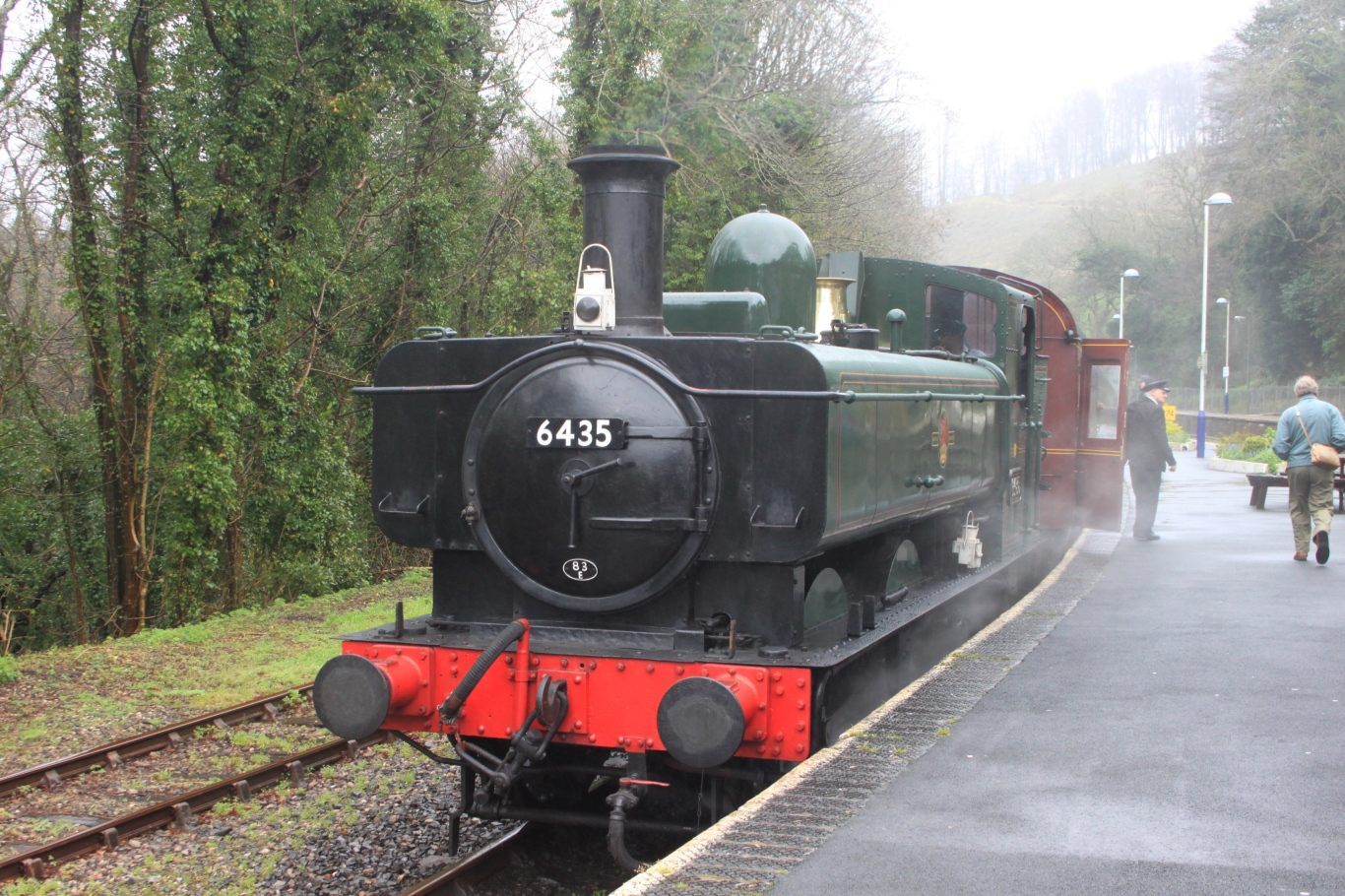 The guard of the Bodmin and Wenford Railway's autotrain waits for one last passenger to board at Bodmin Parkway station. The motive power is former Great Western Railway 0-6-0PT 6435.